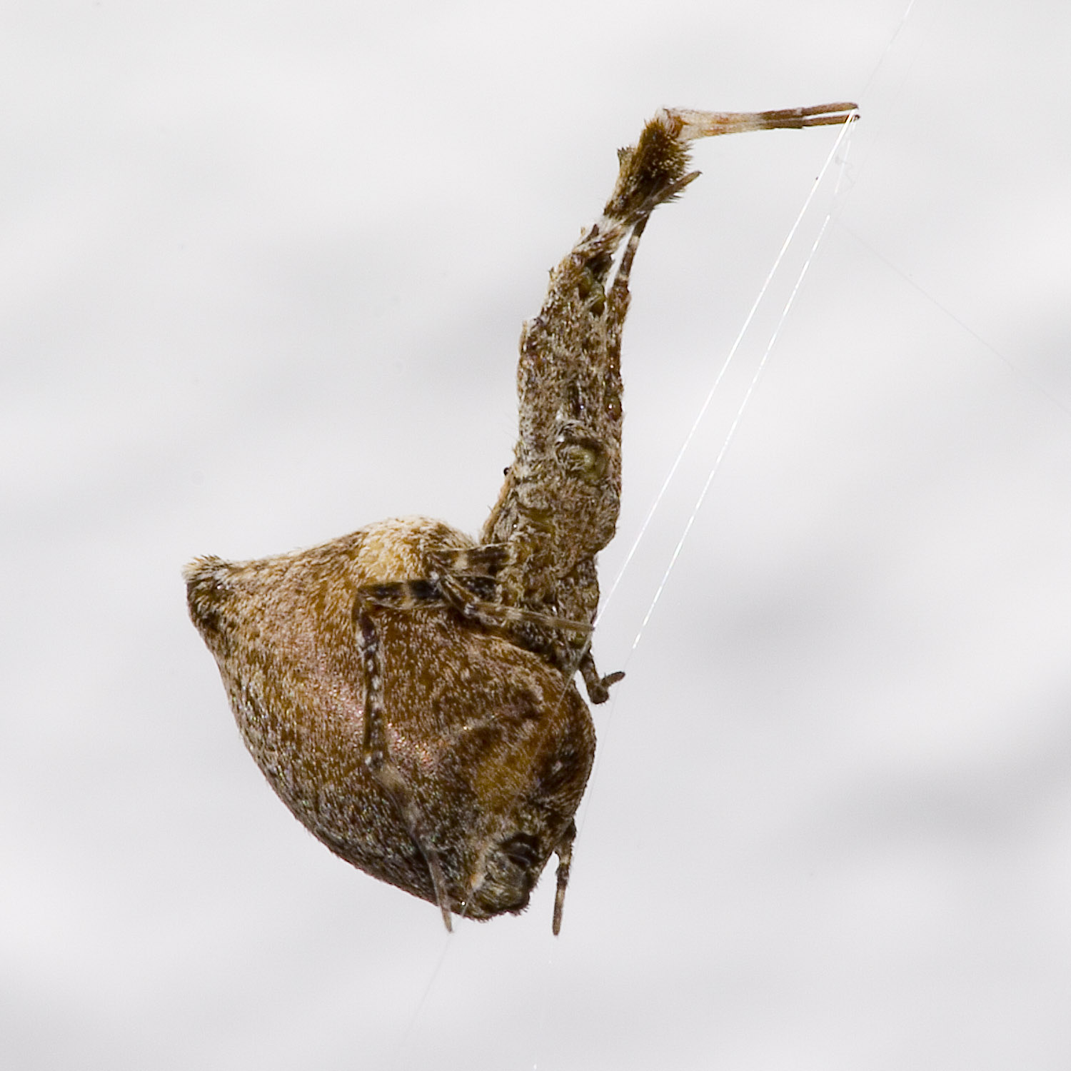 Uloborus.plumipes, Many thanks to Michael Hohner from for determination!